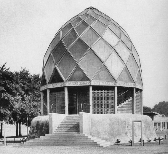 Bruno Taut, Glasshouse Pavilion, Cologne Werkbund 1914 Exhibition